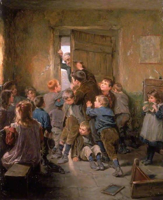 Though this is from the Victorian era in the United Kingdom, it also happened during that era in the United States, at least in Pennsylvania around Christmas.